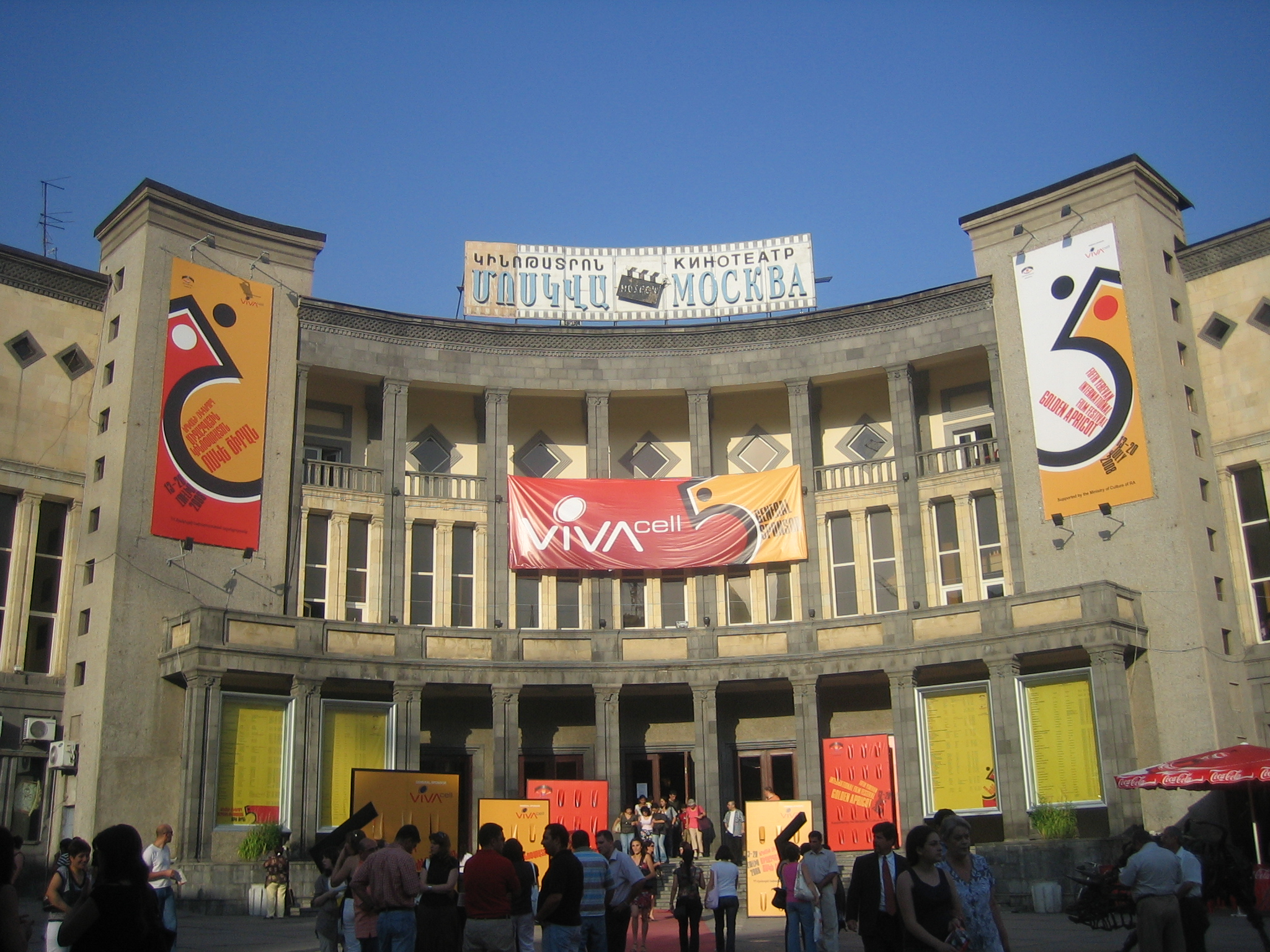 Moskva theater in Yerevan, Armenia, during the Golden Apricot International Film Festival.